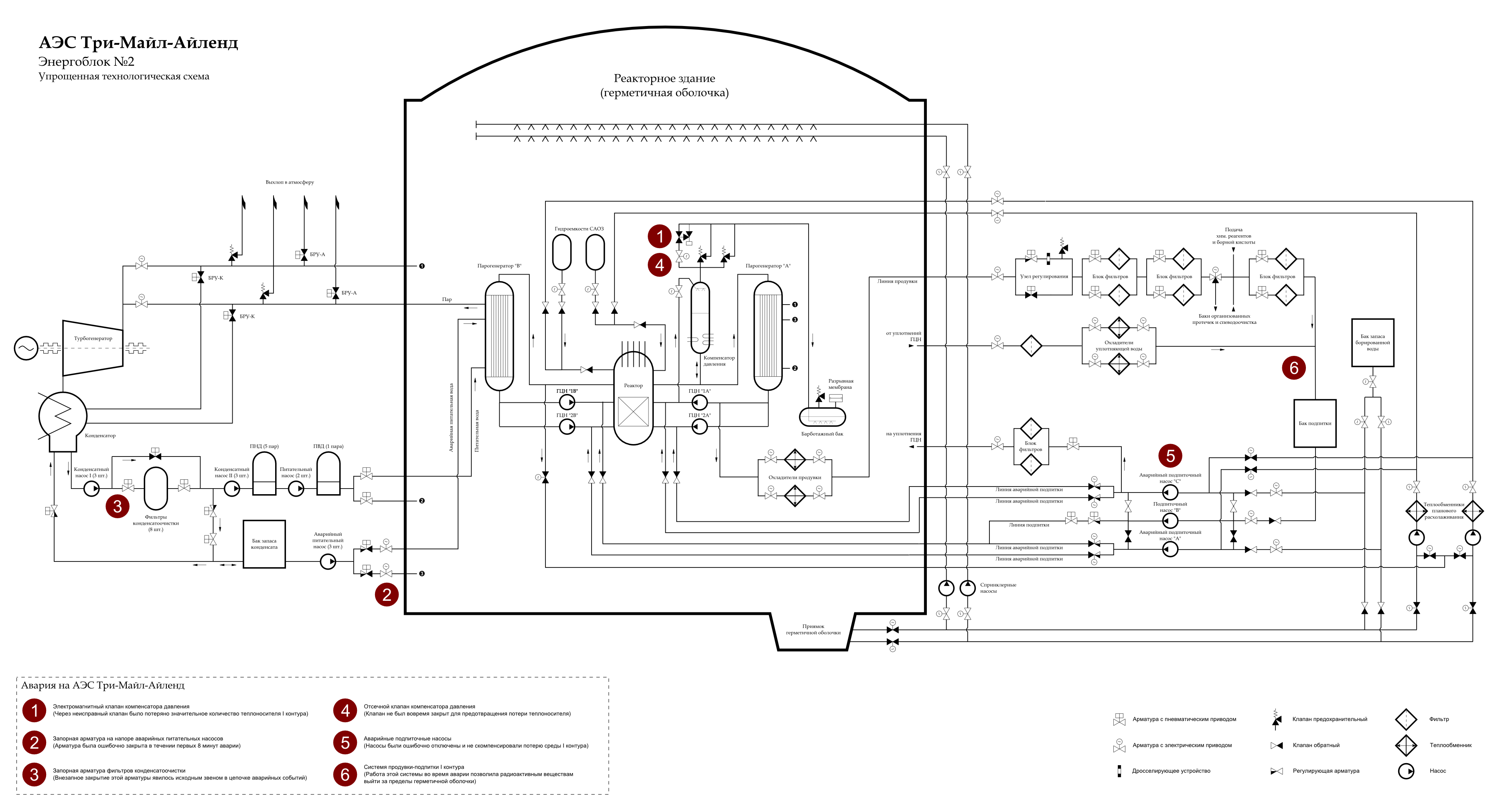 Simplified Three Mile Island Nuclear Generating Station Unit 2 Composite Flow Diagram